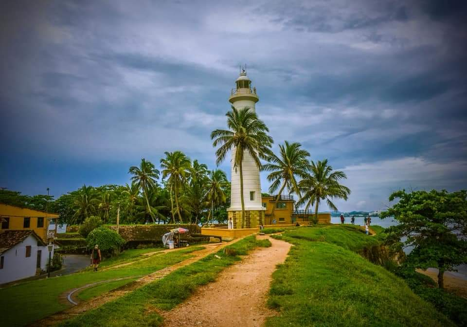 Beach side. Galle fort